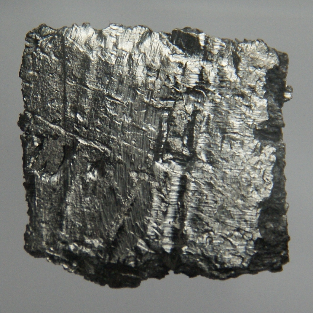 9.5 gramms pure Erbium, 2 x 2 cm.